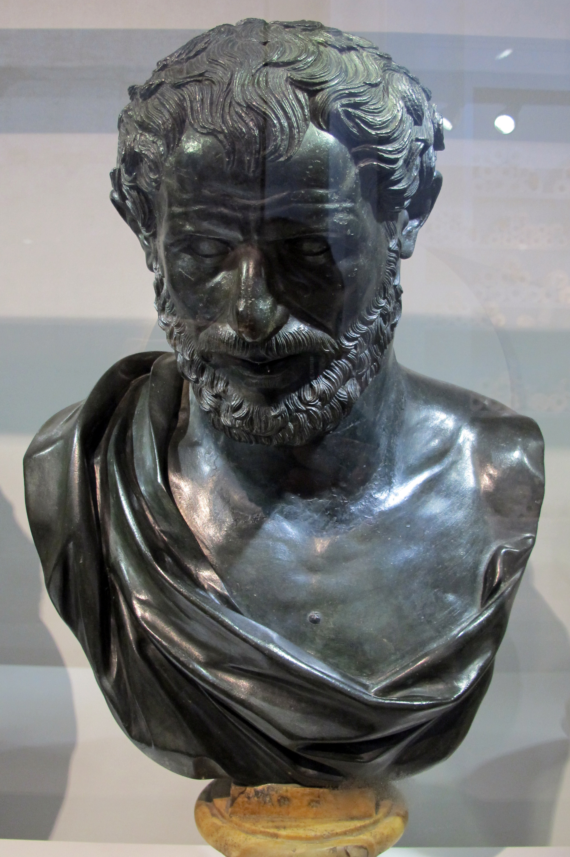 Ancient Libraries Exhibition (Colosseum, 2014). Bronze bust of an unknown man, doubtfully identified as the philosopher Democritus. The original was found in the Villa of the Papyri in Herculaneum, and is now in the Museo Archeologico in Naples (inv. nr. 5602). Concerning this sculpture, the Naples Museum says [1]: "The identification of the piece with Democritus, already advanced in the eighteenth century was revived with new vigor in recent times, such identification would agree well with the adherence of the villa owner and patron of the "gallery" of sculptures - Epicurean philosophy descended from the doctrine of Democritus. ... It should, however, be noted that over the years, scholars have seen in the bronze very different characters from Solon and Aristotle to Philopoemen.